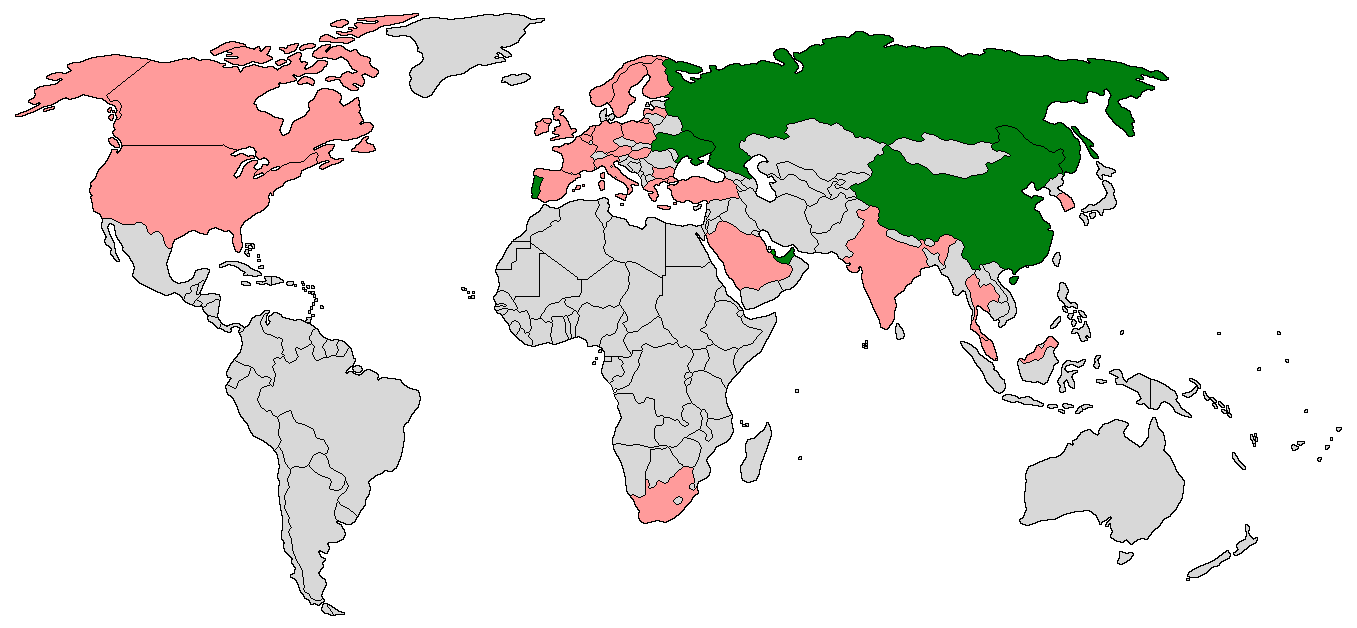 World map displaying the countries raced in by the Formula 1 Powerboat World Championship in its 2011 season in green. Former host nations shown in pink.